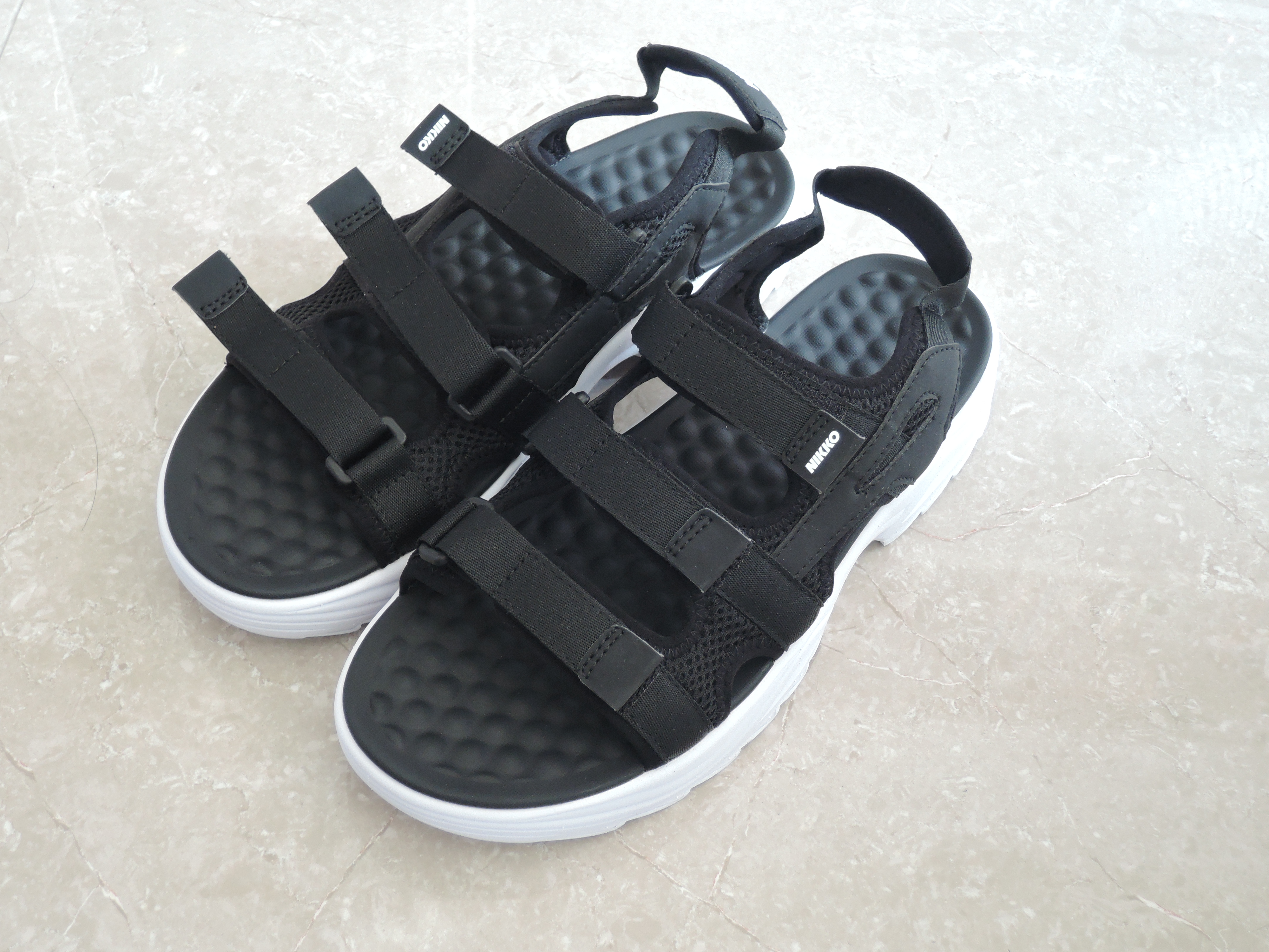 Nikko black sandal from outlet store in Hong Kong